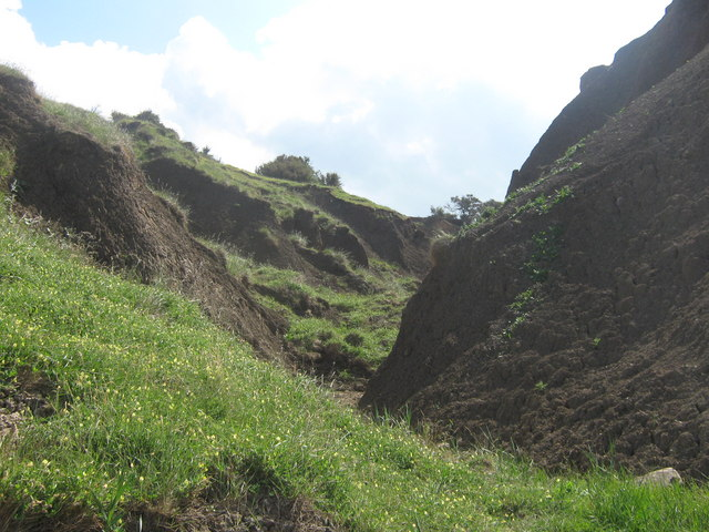 Barrow Brook Valley This valley view is from the shingle beach near Warden.